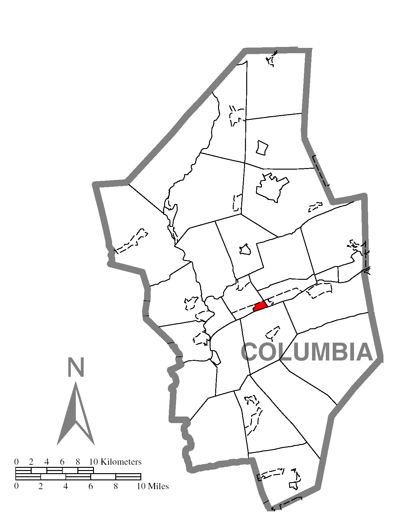 A map of Columbia County showing Almedia, Pennsylvania (alternate) highlighted on the map.